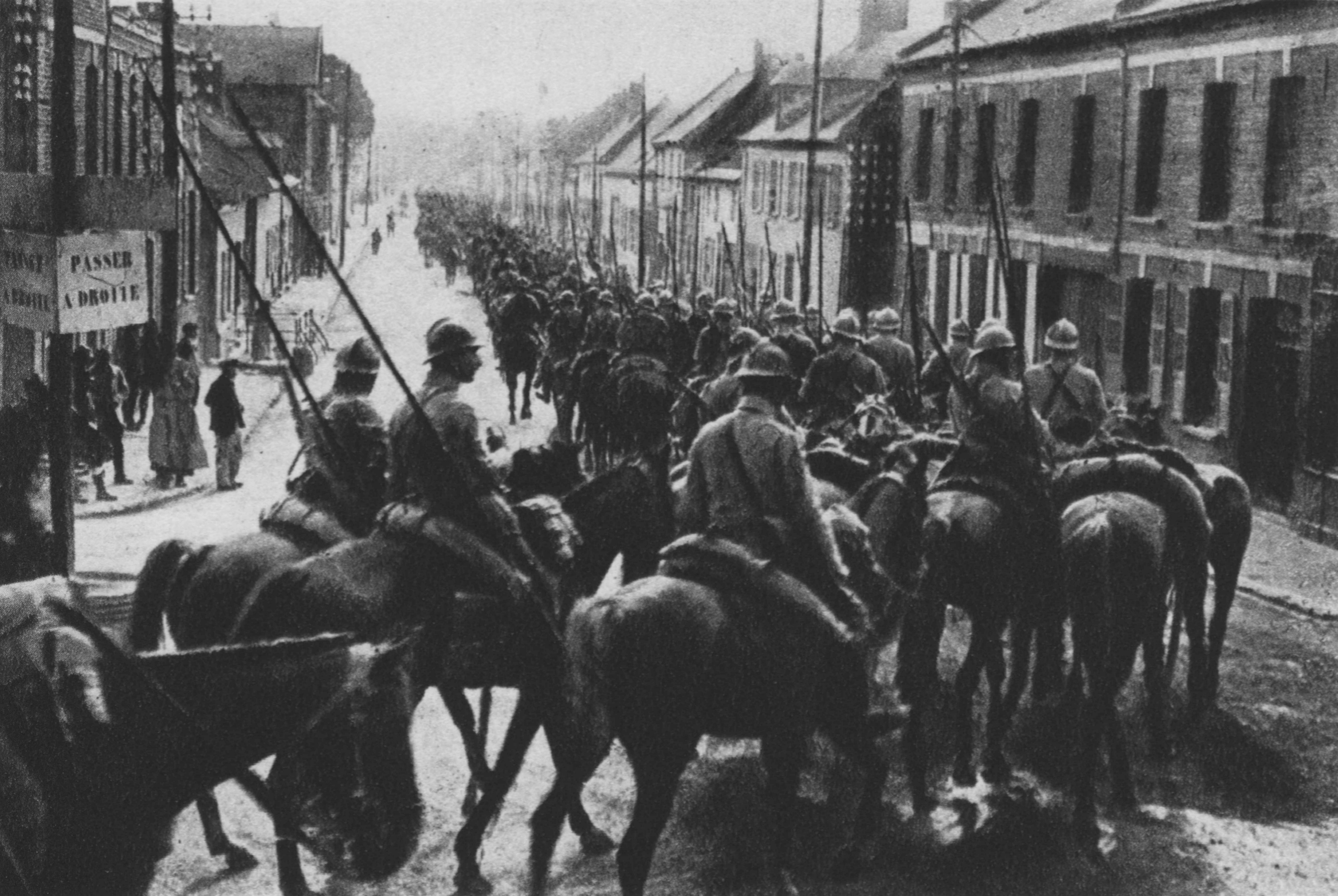 French cavalry passes a locality near the Somme (July 16th, 1916).